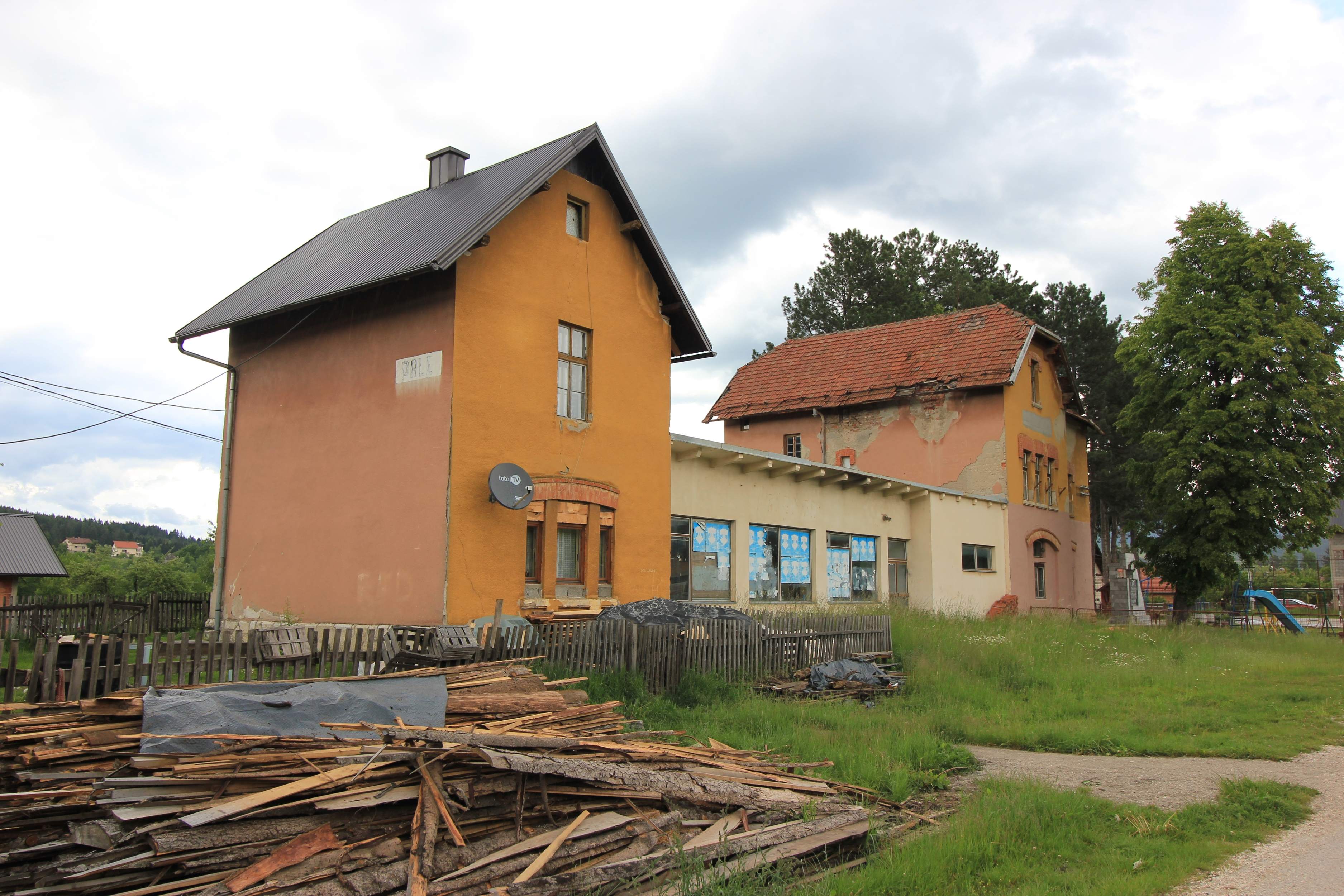 Former train station in Pale.